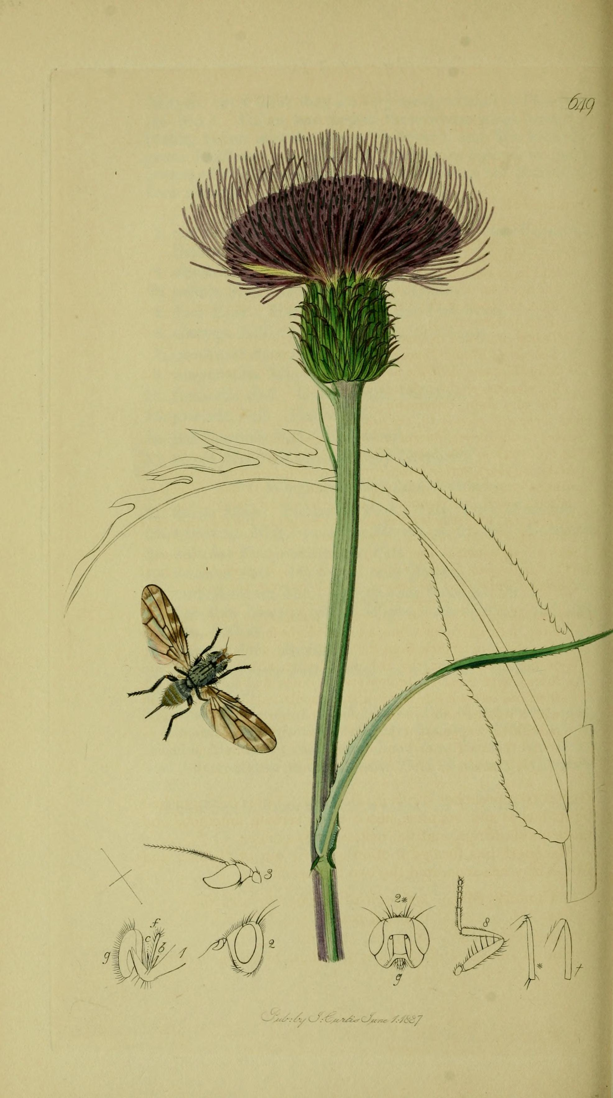 John Curtis British Entomology (1824-1840) Folio 649 Diptera: Ortalis guttata = Otites guttatus.The plant is Cirsium heterophyllum (Melancholy Thistle)